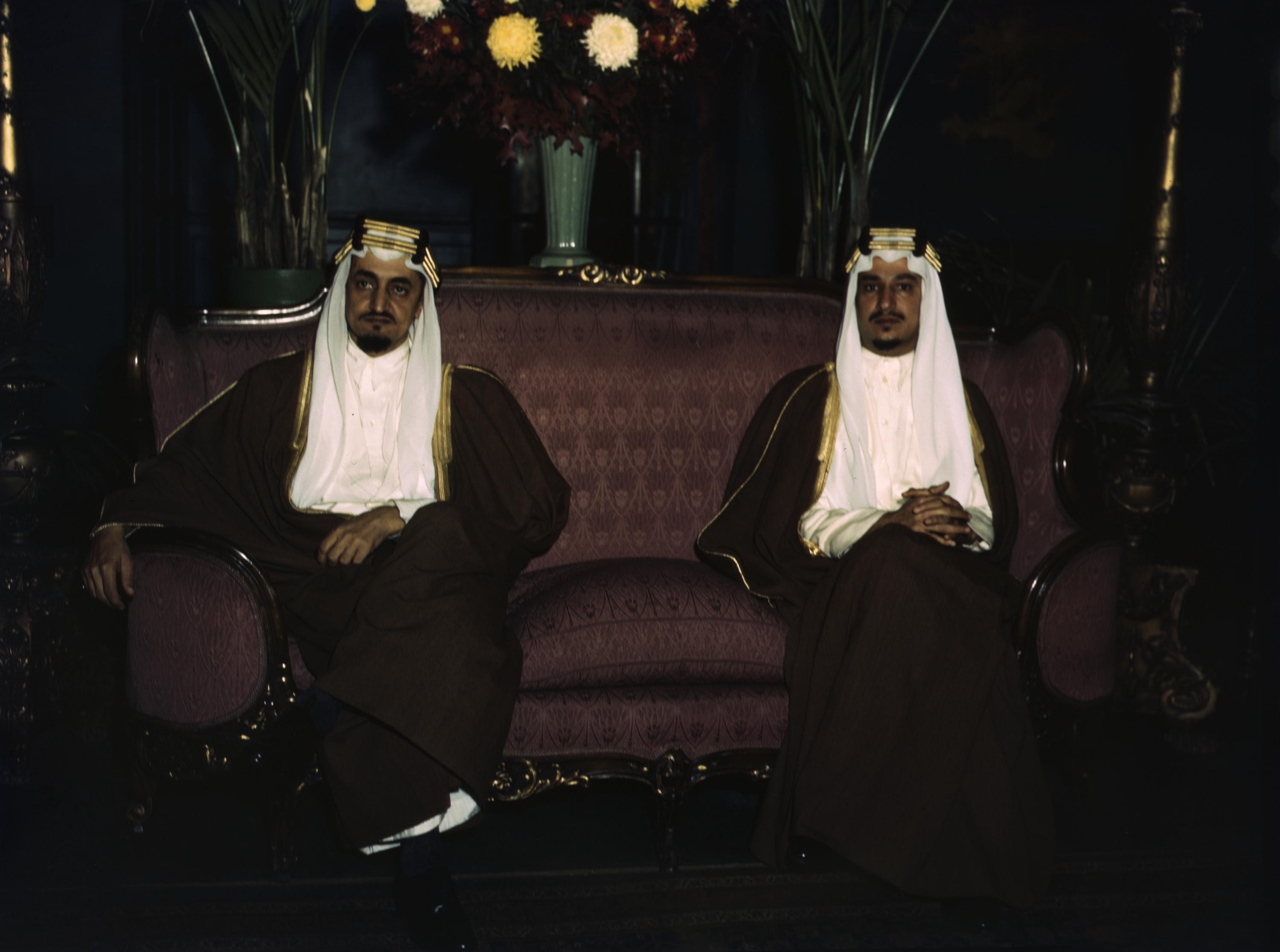 Amir Khalid (right) and Amir Faisal (left), sons of King Ibn Saud of Saudi Arabia. Original caption: "Their Royal Highnesses recently concluded an extensive visit in the United States as guests of the government. They have made a special study of irrigation projects in the United States. The princes at their own farewell reception in the nation's capital."